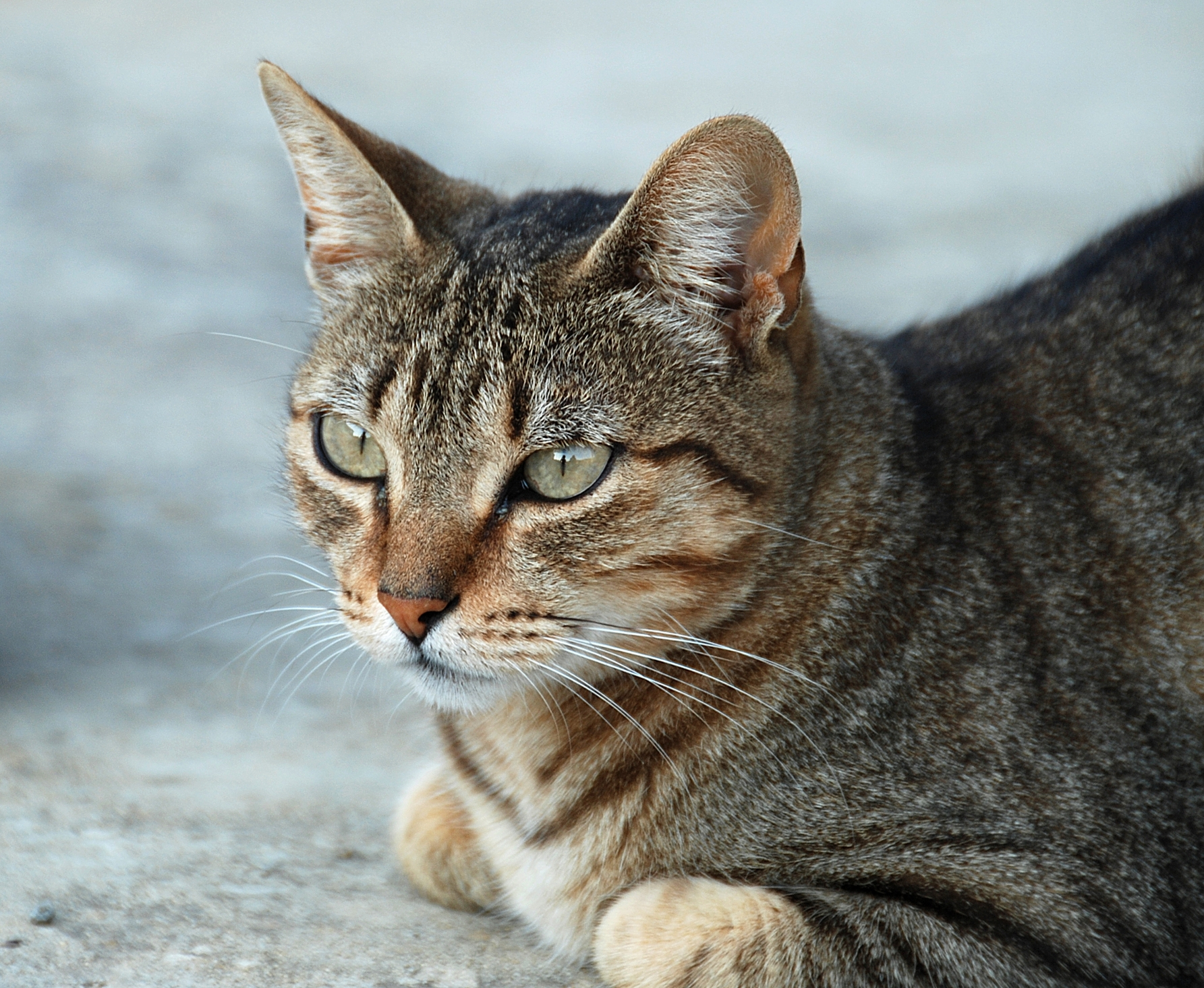 Portrait of a tabby queen (Domestic cat, Felis silvestris catus)